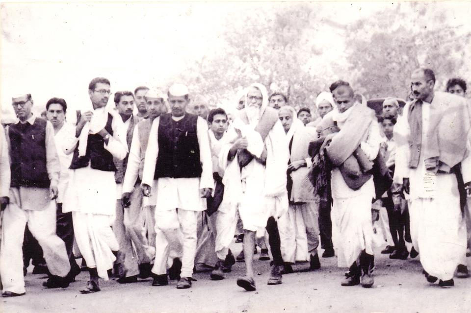 Mool Chand Jain marching with Acharya Vinoba Bhave in 1960